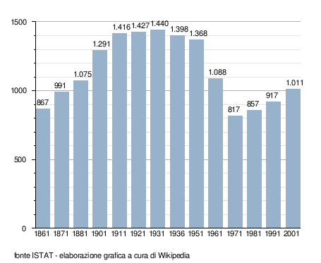 Poggio Picenze by Decade